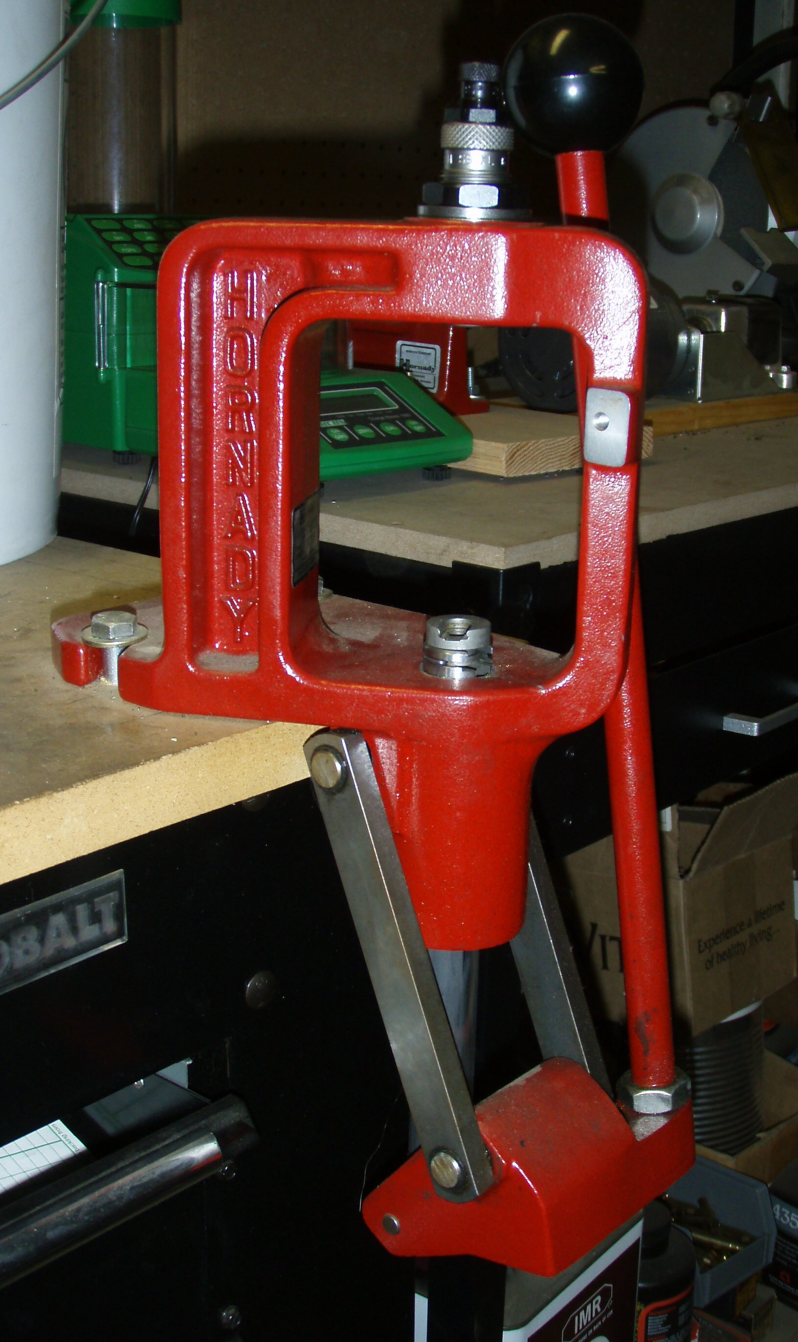 Hornady Handloading / Reloading press for ammunition